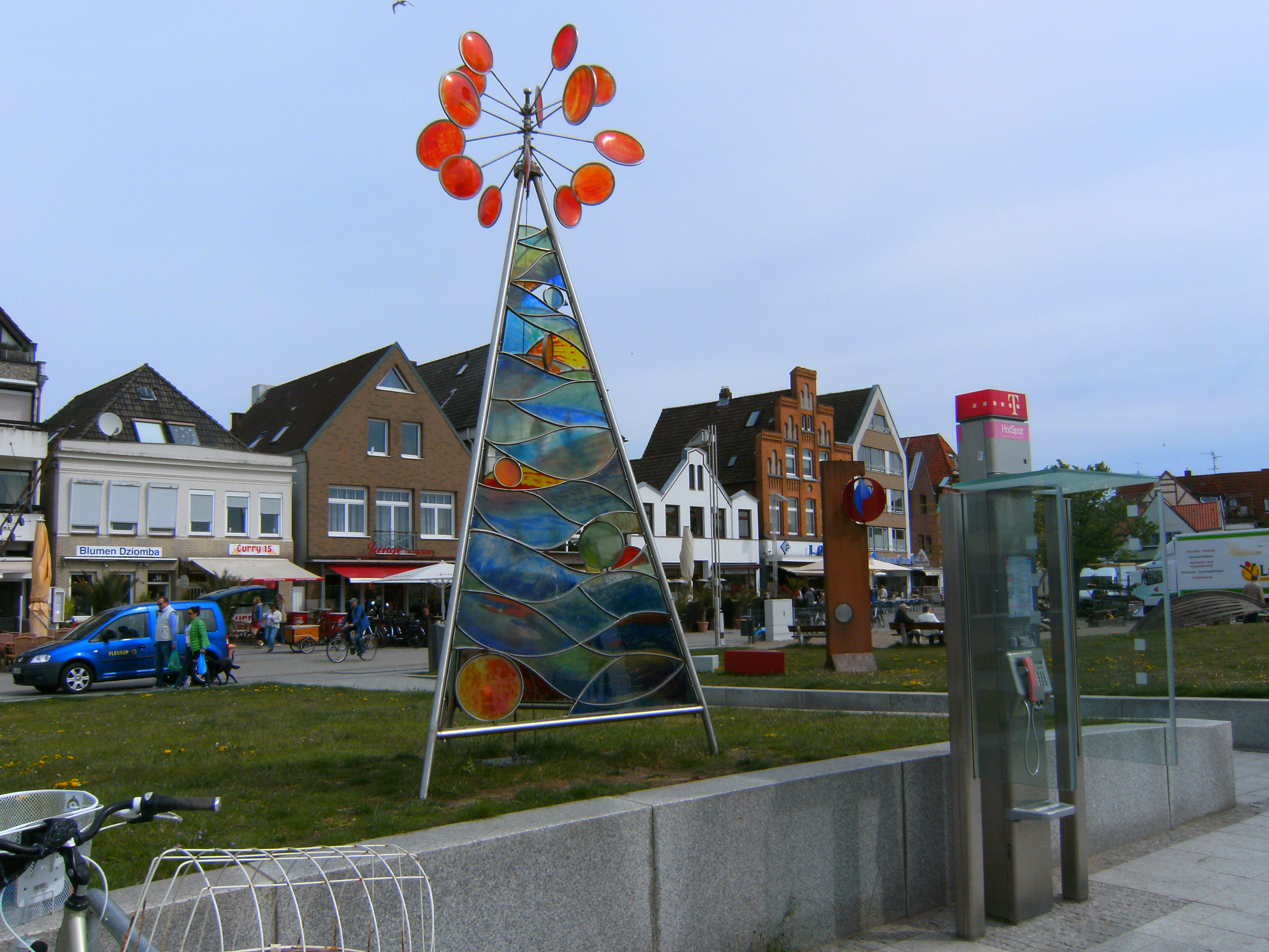 WindArt in Lübeck-Travemünde, in front of the building Alte Vogtei. Gerhard A. O. Schmidt, Oldenburg/Ol, Germany: Glass sculpture "Die Große Windpyramide" (the great wind pyramid).